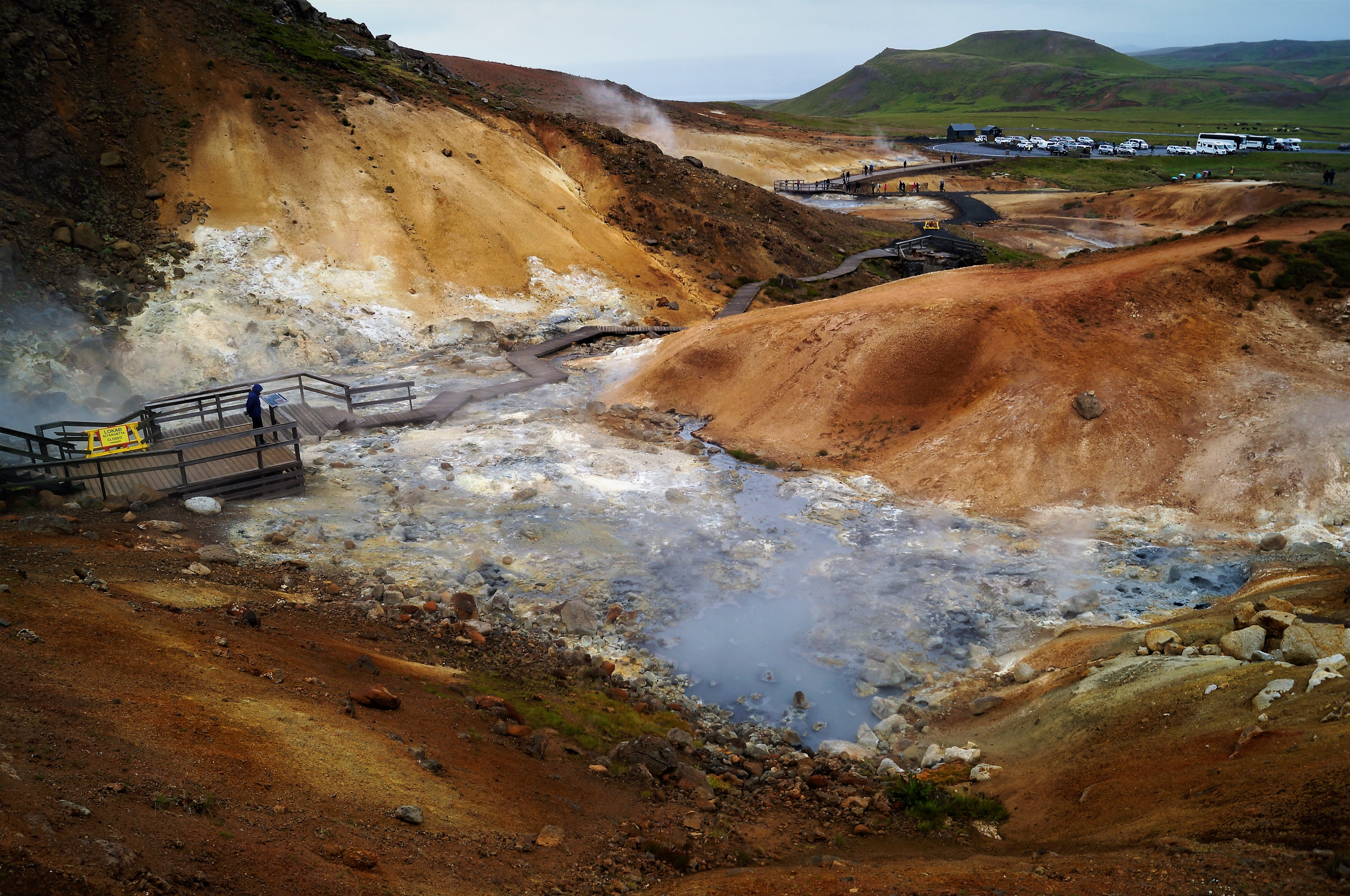 Mineral deposits, hot gases, parking lot and walkways at Krýsuvík-Seltún geothermal field on 2019-07-08